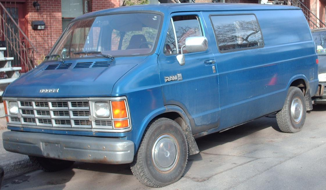 Dodge Ram Van photographed in Montreal, Quebec, Canada.